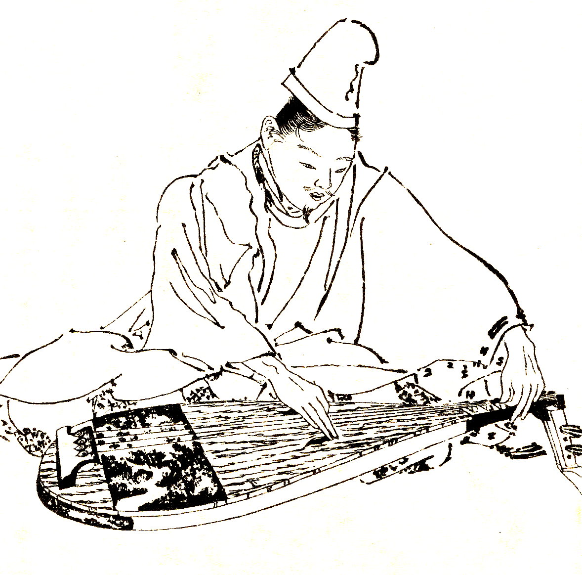 Taira no Shigehira (平重衡) was one of the Taira Clan's chief commanders during the Heian period of the 12th century of Japan.This picture was drawn by Kikuchi Yosai（菊池容斎） who was a painter in Japan.